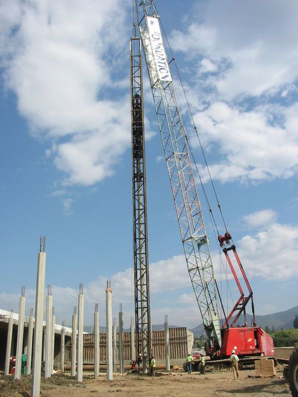 Piledriving at the Maxwell Bridge (Imola Avenue) in Napa, California. Taken by Argyriou on 20 September 2005.